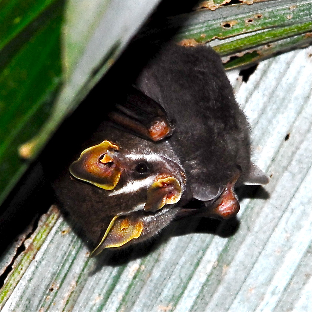 A mother bat and her pup (Artibeus gnomus) hanging on a tent-roost made on a leaf, Reserva Michelin, Brazil